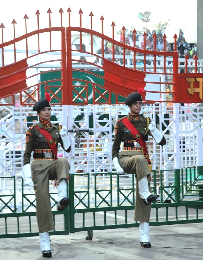 Women personnel of India's Border Security Force (BSF) taking part in the ceremonial retreat at the India-Pakistan border at Atari.